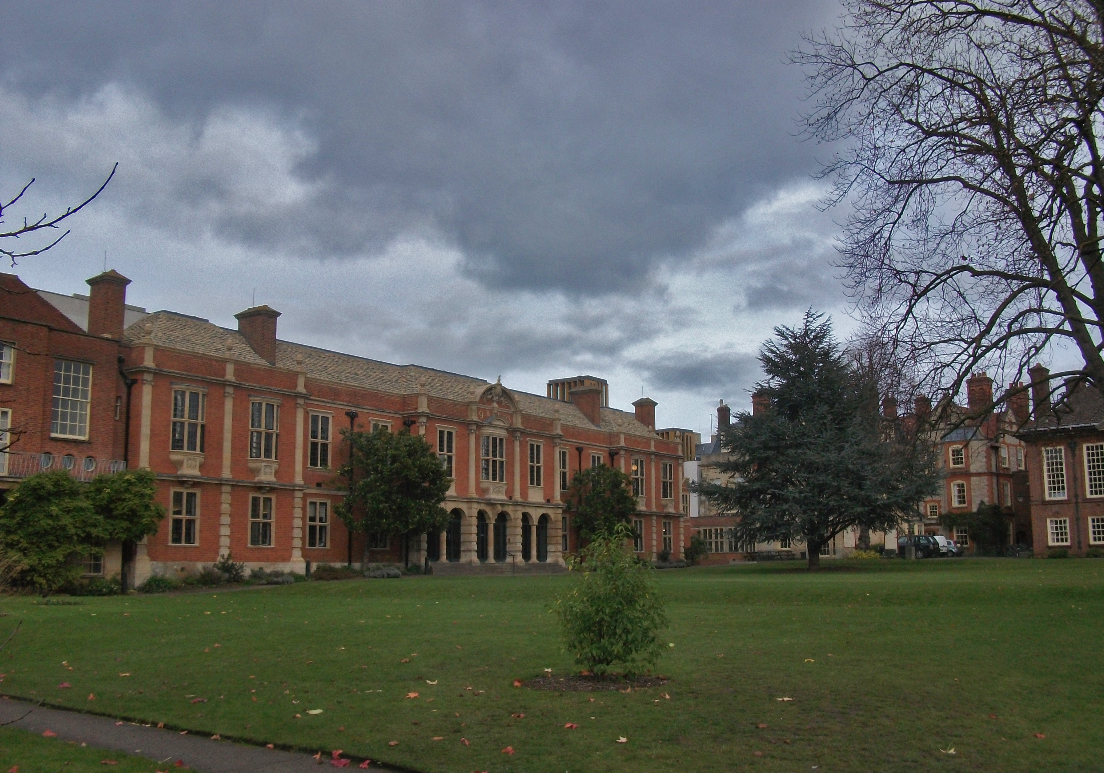 View of the college library